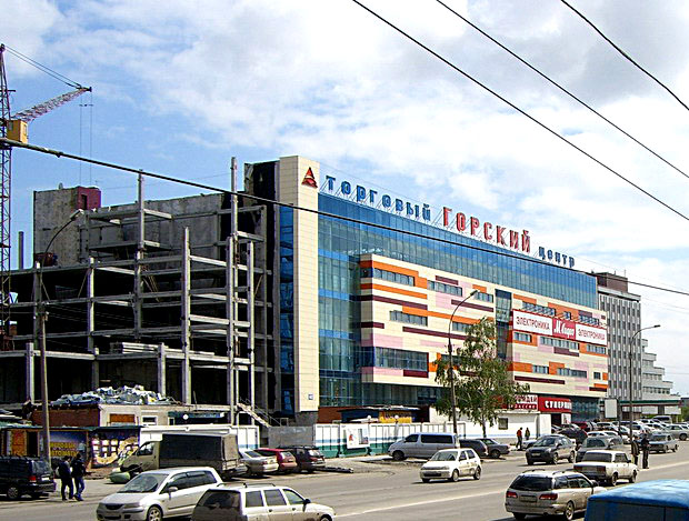 Novosibirsk. The Gorsky Trade Center.